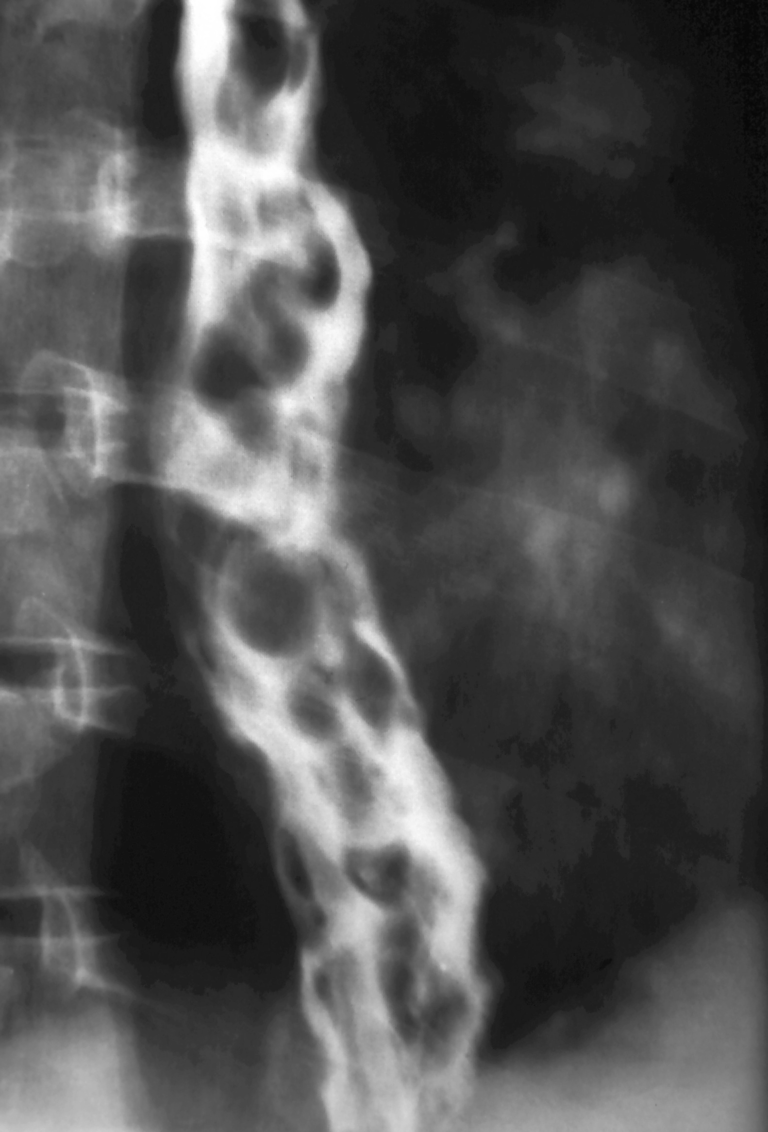 Dilated and snake like varicose veins in esophagus of a patient with PHT. Upper gastrointestinal series.